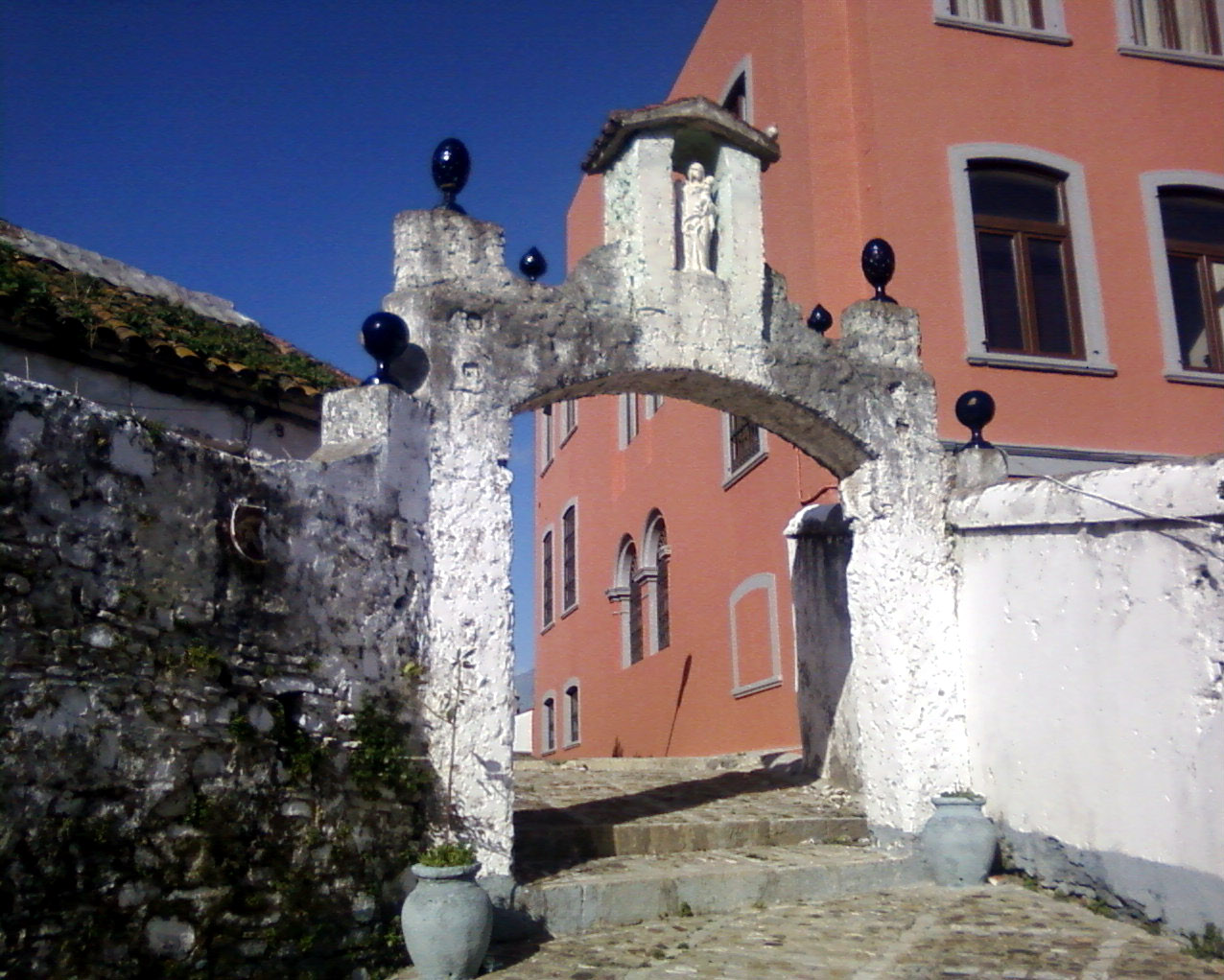 Coral Square Gateway, Algeciras, Southern Spain